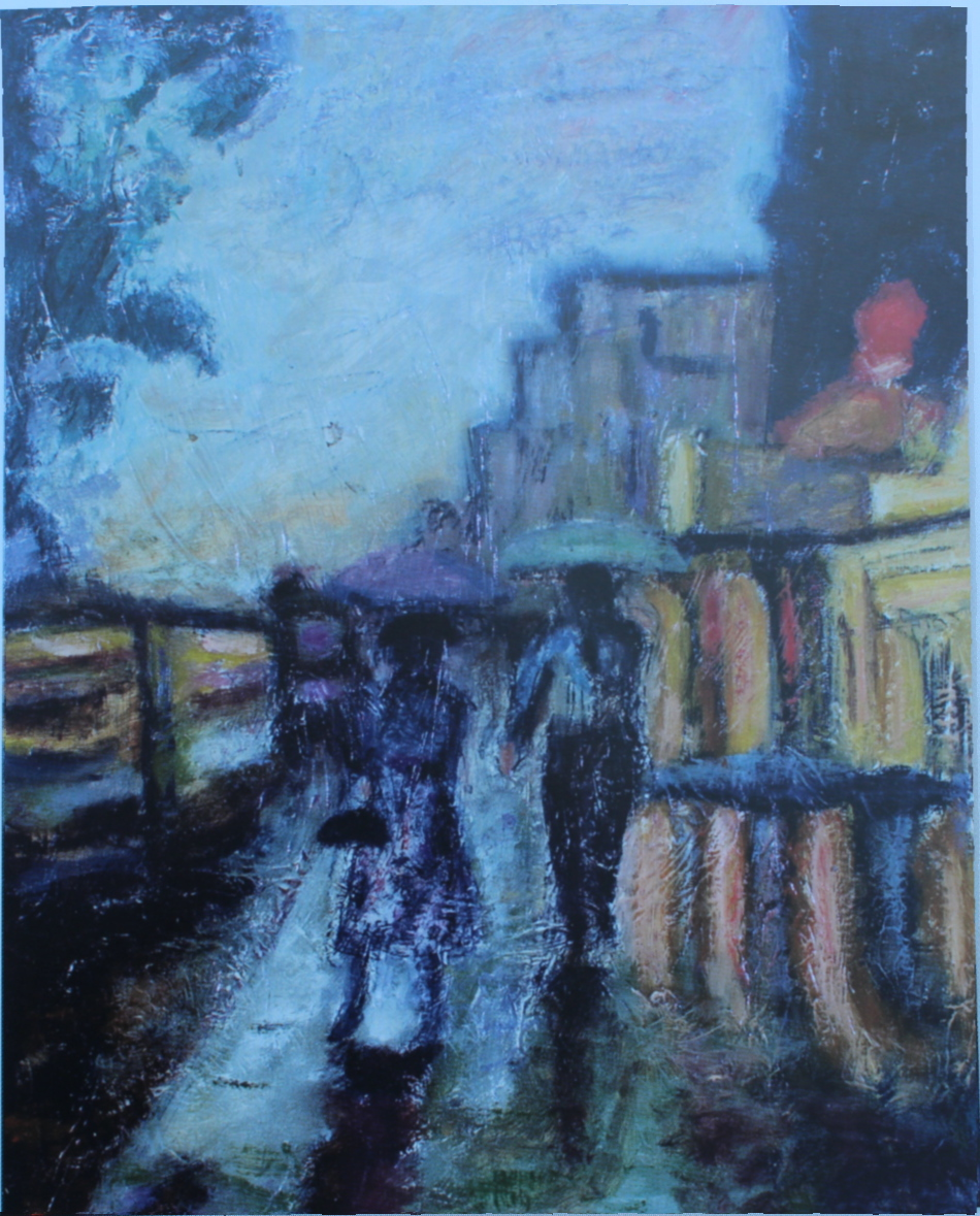 Photo of the painting title Street Scene by Irvin Borish, 1968. Collection of Irv Borish.